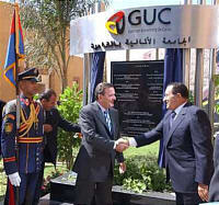 German Chancellor Gerhard Schröder & Egyptian President Hosni Mubarak at the opening, October 2003